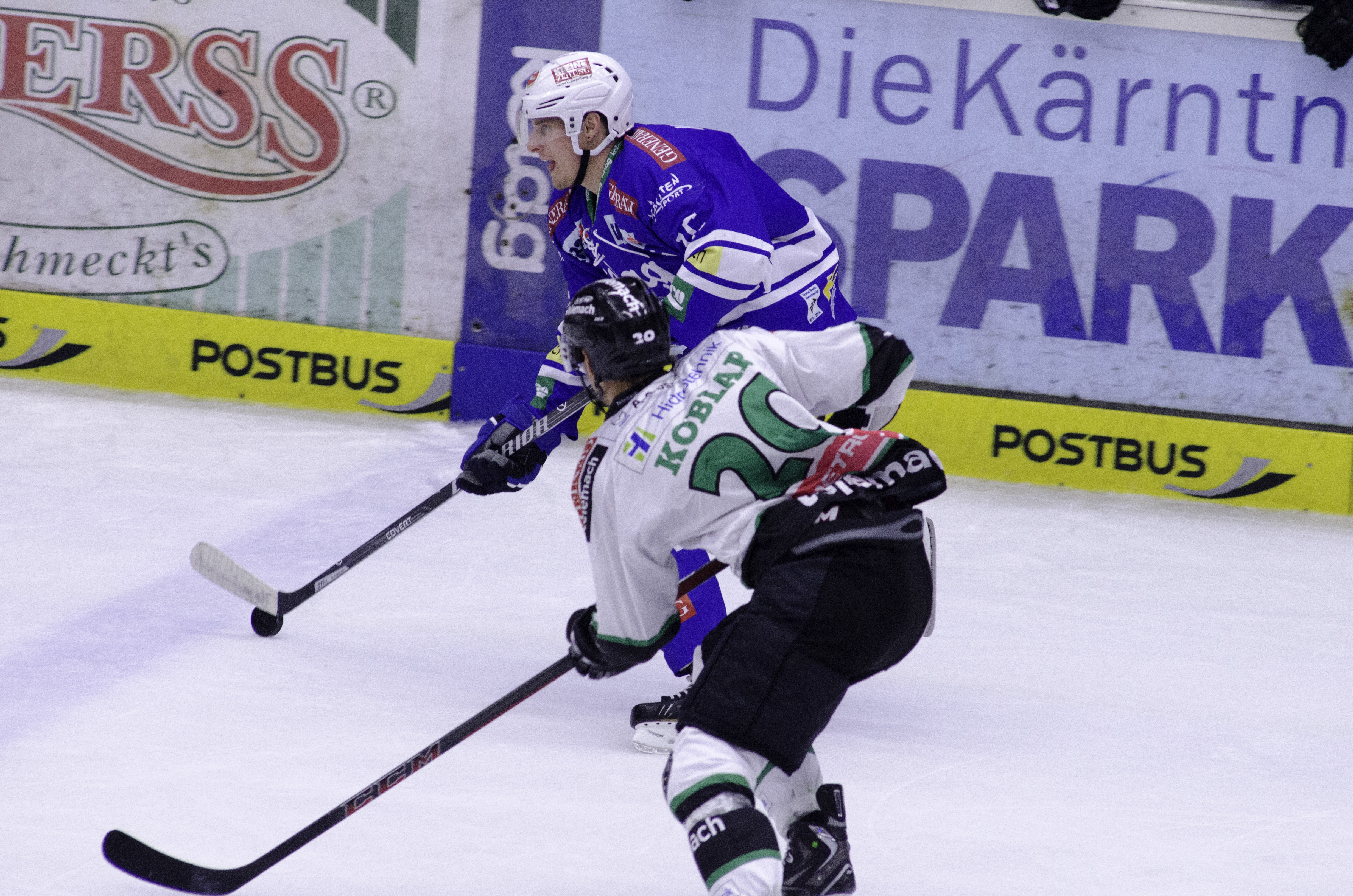 frostworx-micheu130928 (78 von 97)